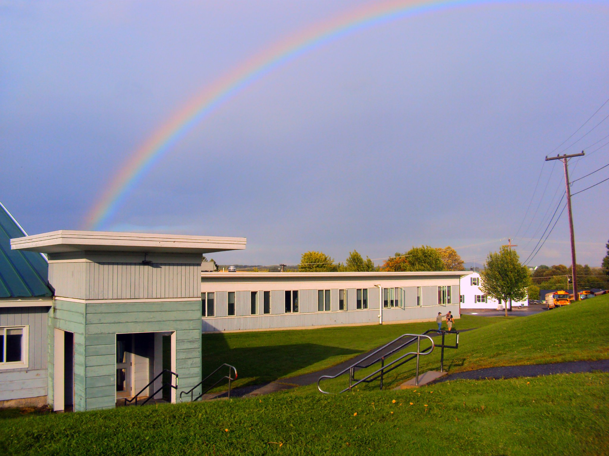 This is a photo of a double rainbow taken by in August 2011 over the Maine School of Science and Math dormitory in Limestone, Maine.